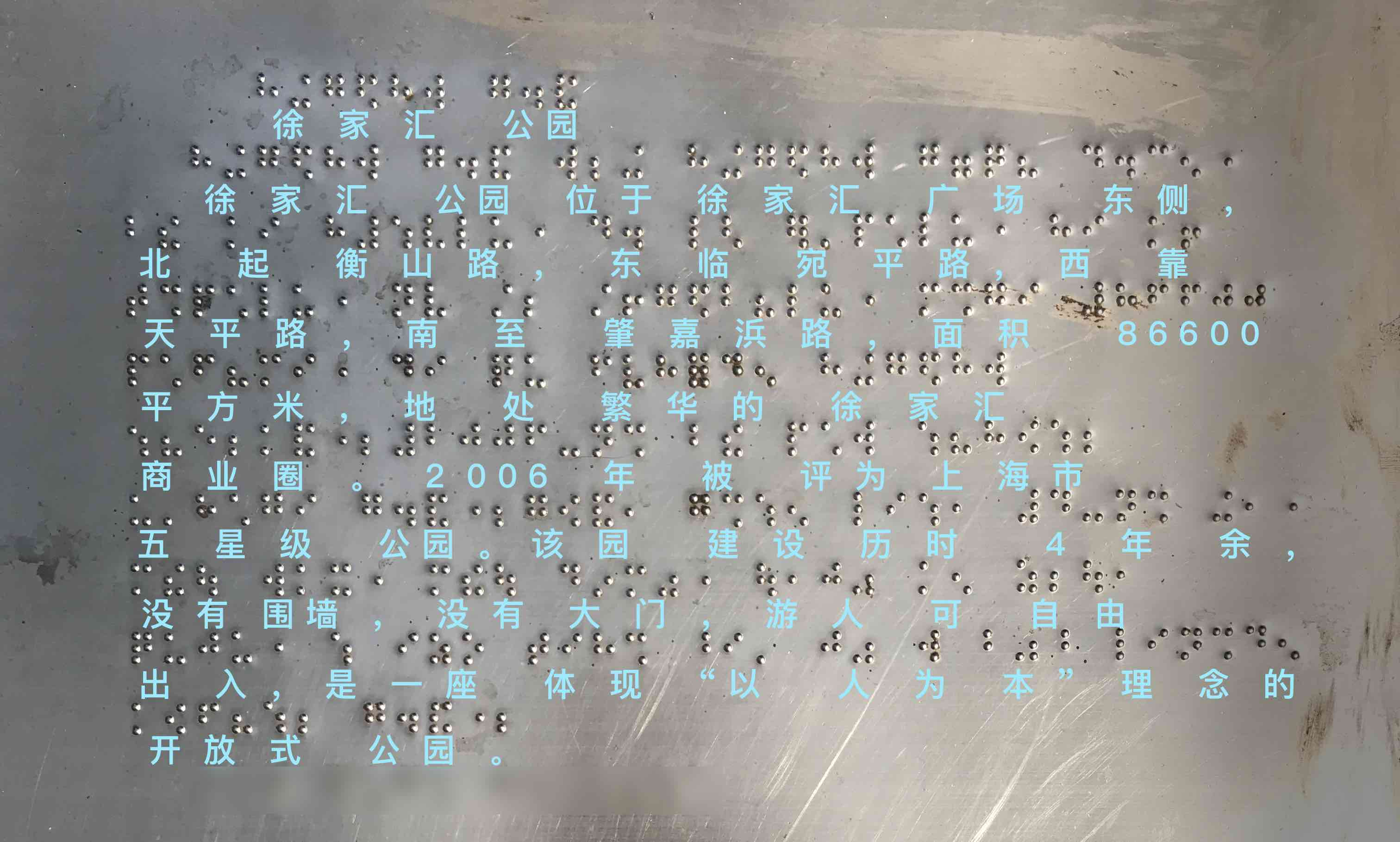 徐家汇公园的盲文平面图（含明眼文字翻译）。